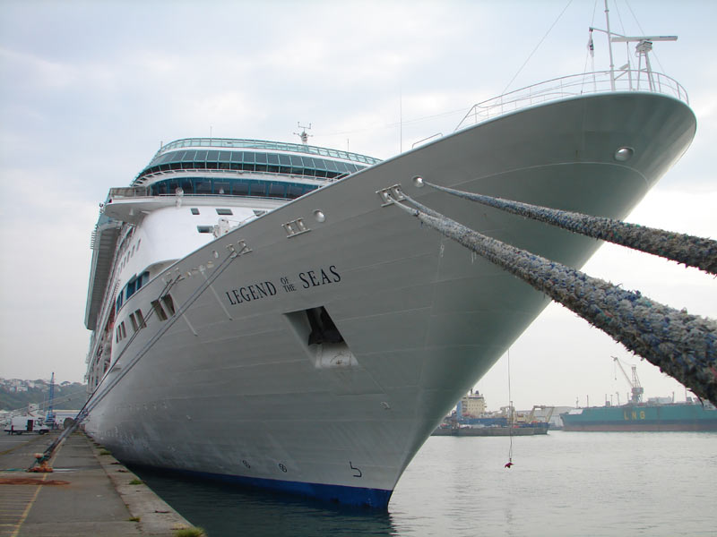 The Legend of the Seas docked in Brest.